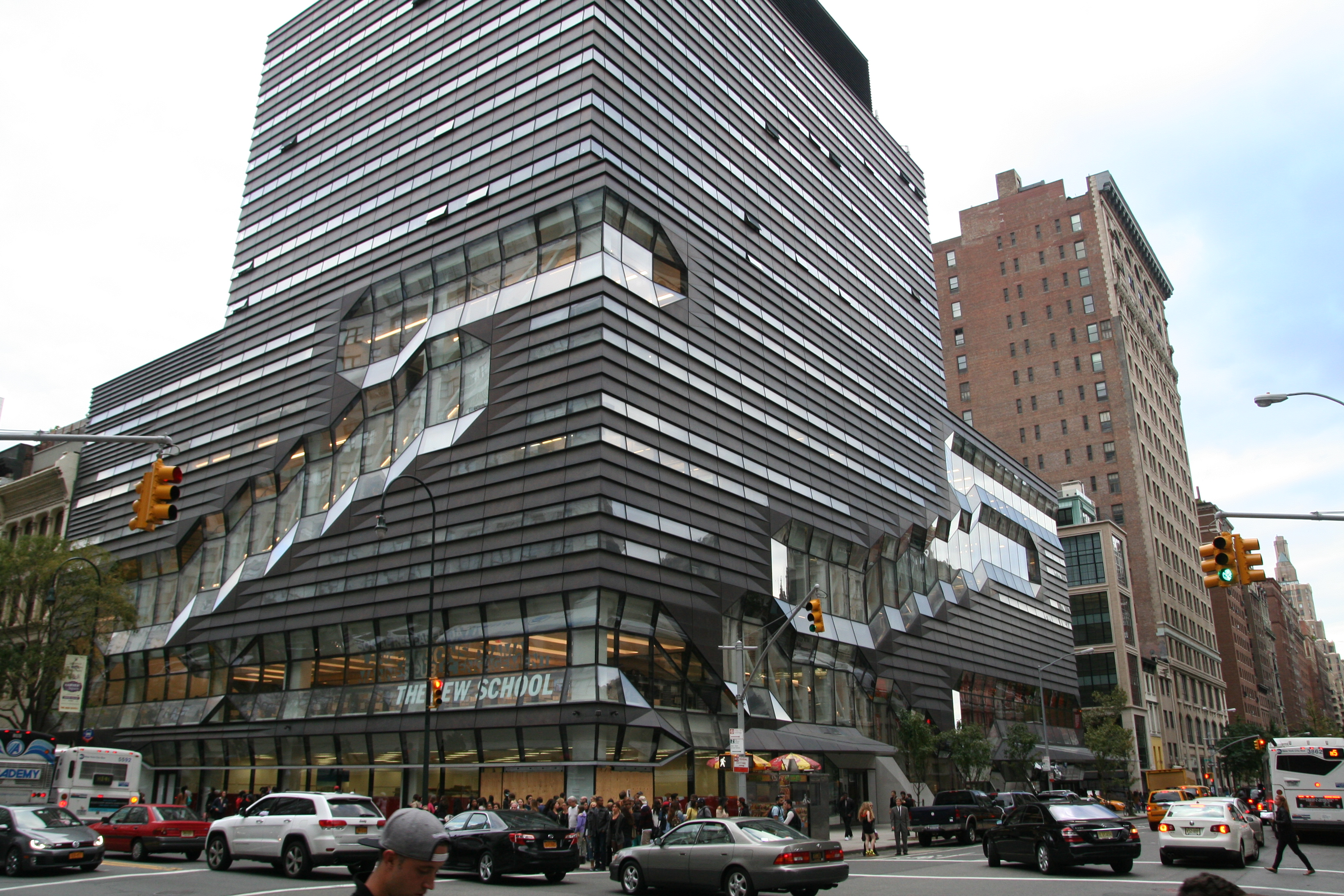 The New School University Center in October 2014